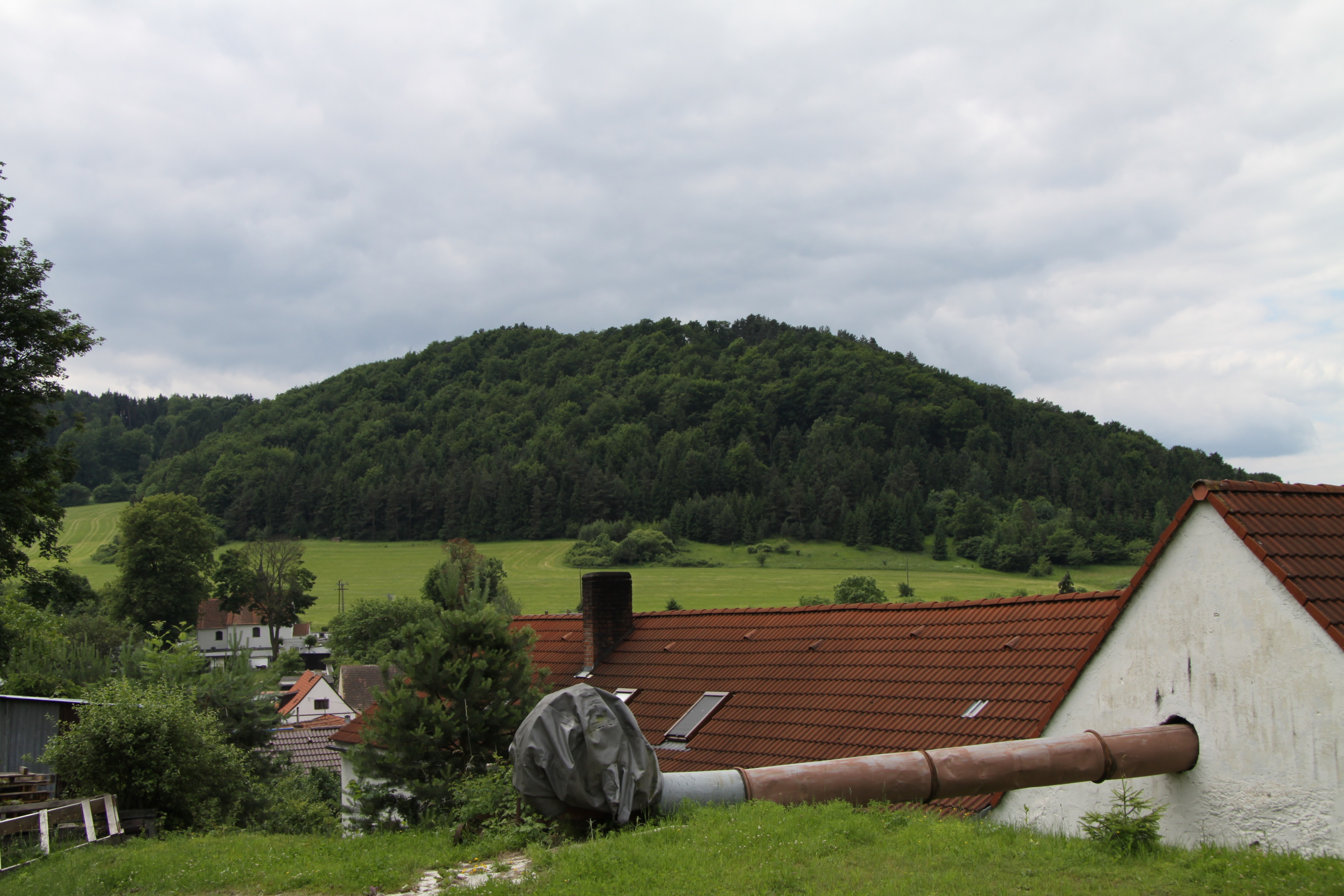 Natural reservation Pučanka in Klatovy District, Czech Republic This photograph was taken within the scope of the 'Czech Municipalities Photographs' grant.